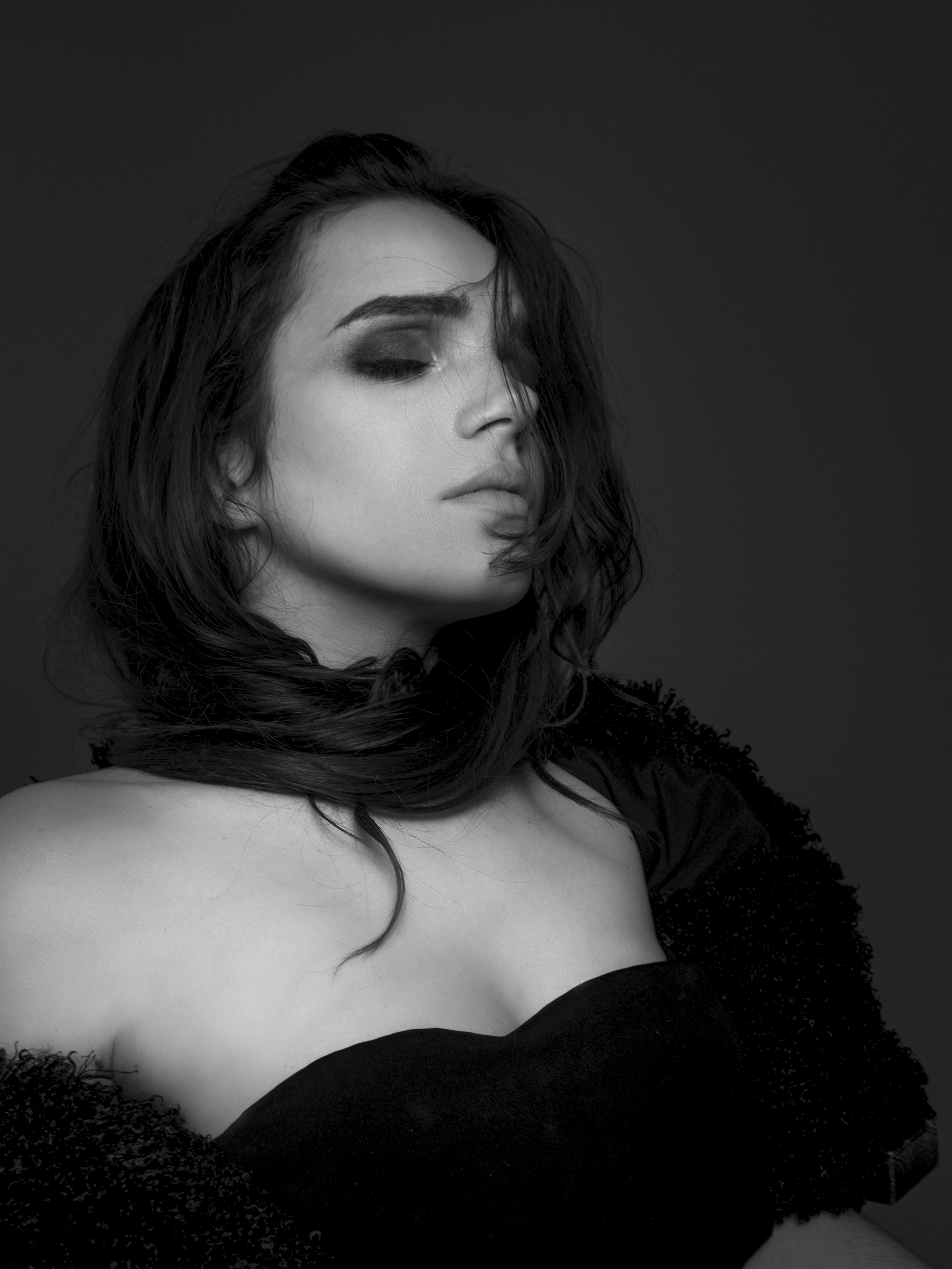 Alexandra Kutas on Fedor Vozianov runway show VIY 2017 by Uly Pashkova